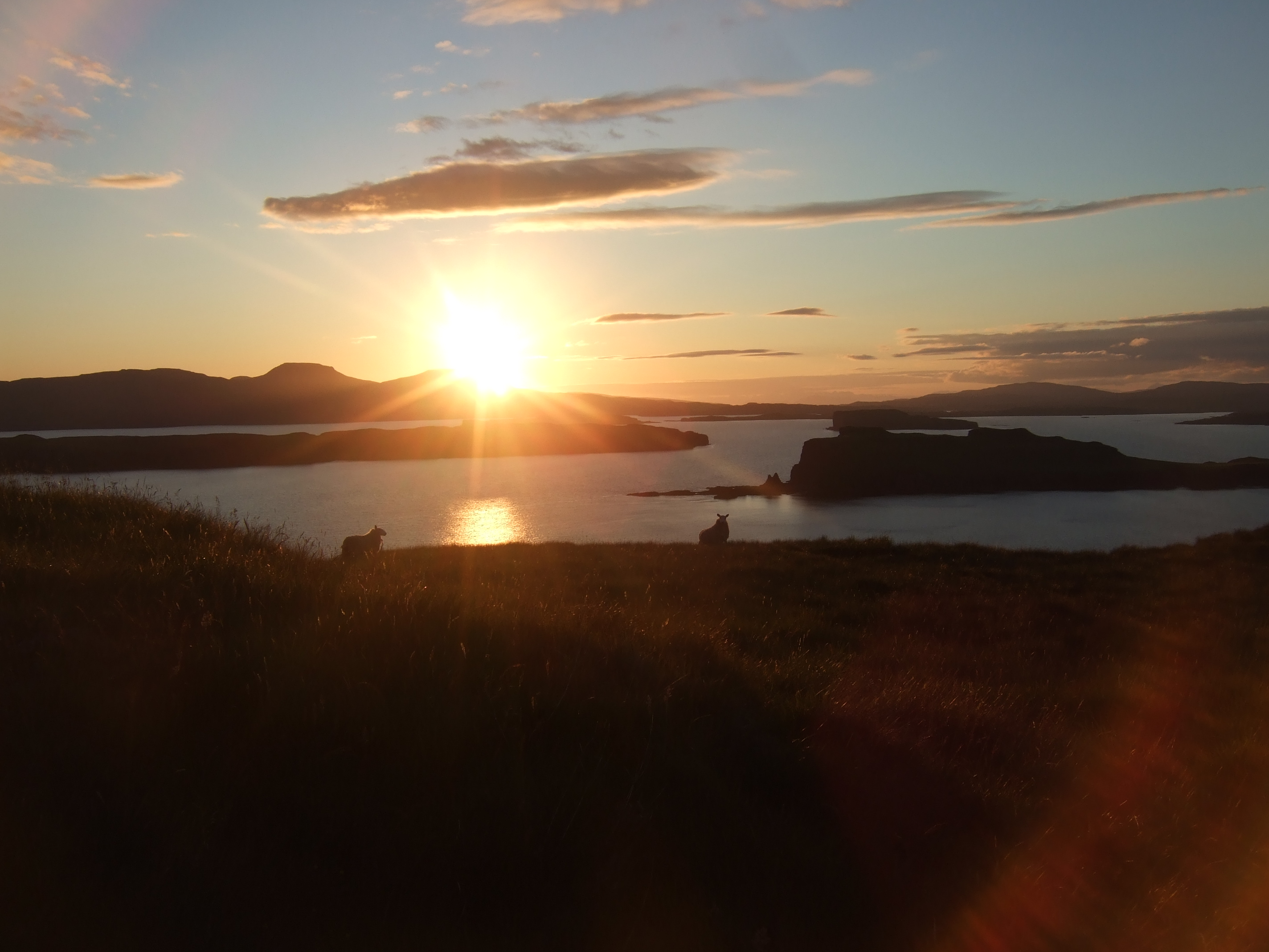 Loch Bracadale looking NW from Fiskavaig with all islands in view